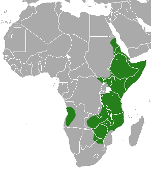 Yellow-spotted Rock Hyrax (Heterohyrax brucei) range